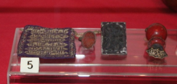 Personal stamps and the packet for namaz (prayer) stamp of actor Sidgi Ruhulla